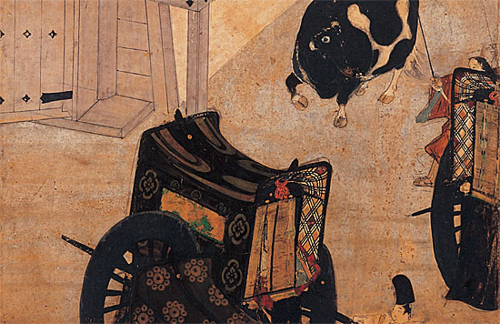 Detail of the Murasaki Shikibu Diary Ekotoba (紙本著色紫式部日記絵詞, shihon choshoku Murasaki Shikibu nikki ekotoba). Handscroll (Emakimono), 21.0 cm × 434.0 cm (8.3 in × 170.9 in), color on paper. Located at the Fujita Art Museum, Osaka, Japan. The scroll has been designated as National Treasure of Japan in the category paintings.